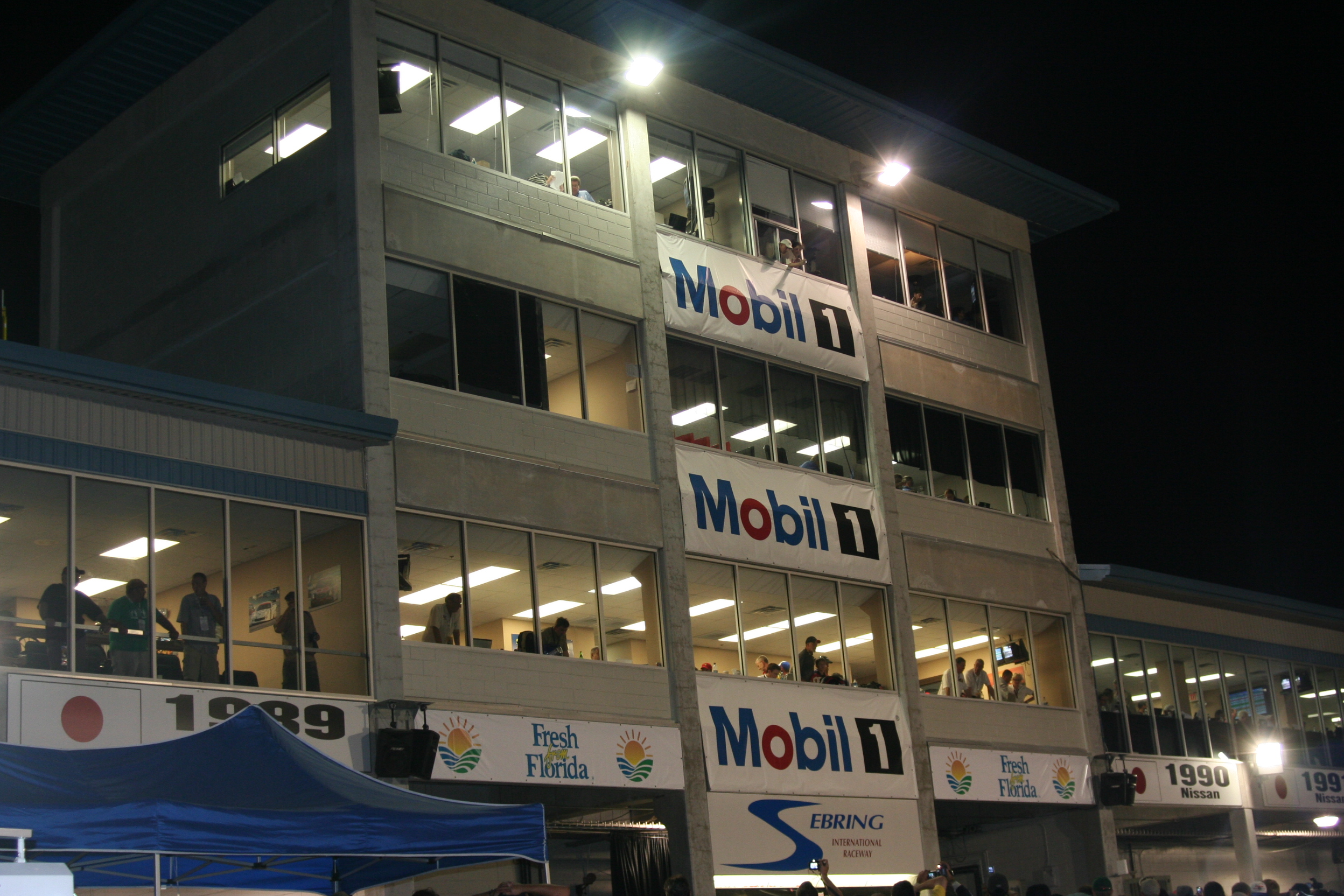 Shot by The Daredevil at the 2008 12 Hours of Sebring event